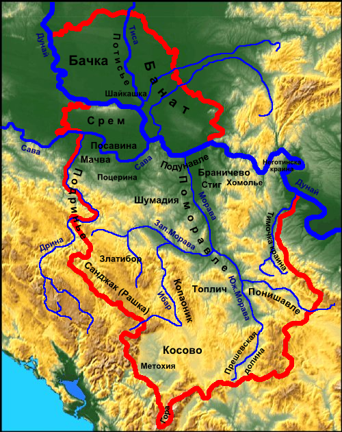 Map of regions of Serbia on Russian